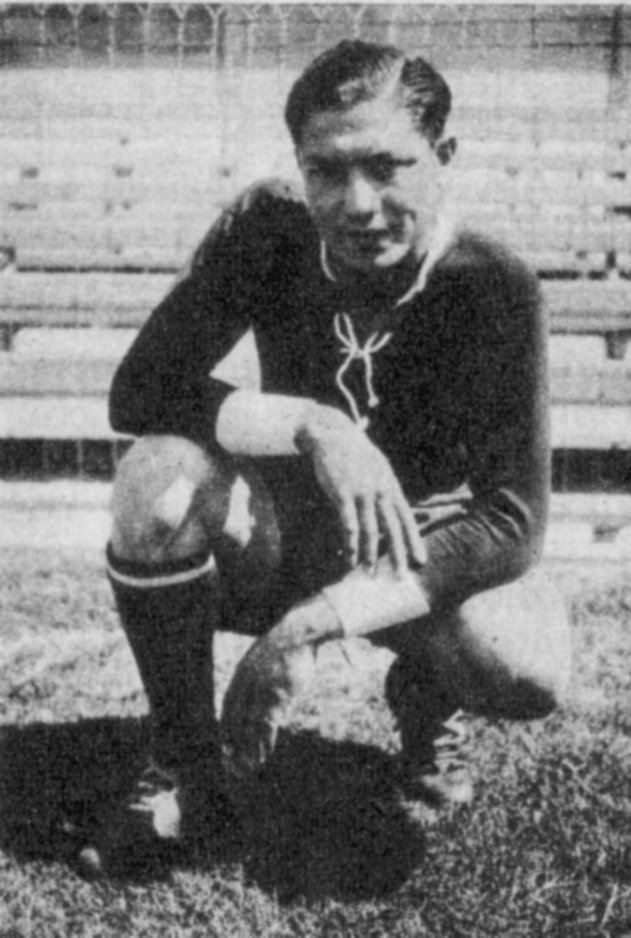 Arsenio Erico, all-time top scorer of Argentine Primera División with 293 goals.